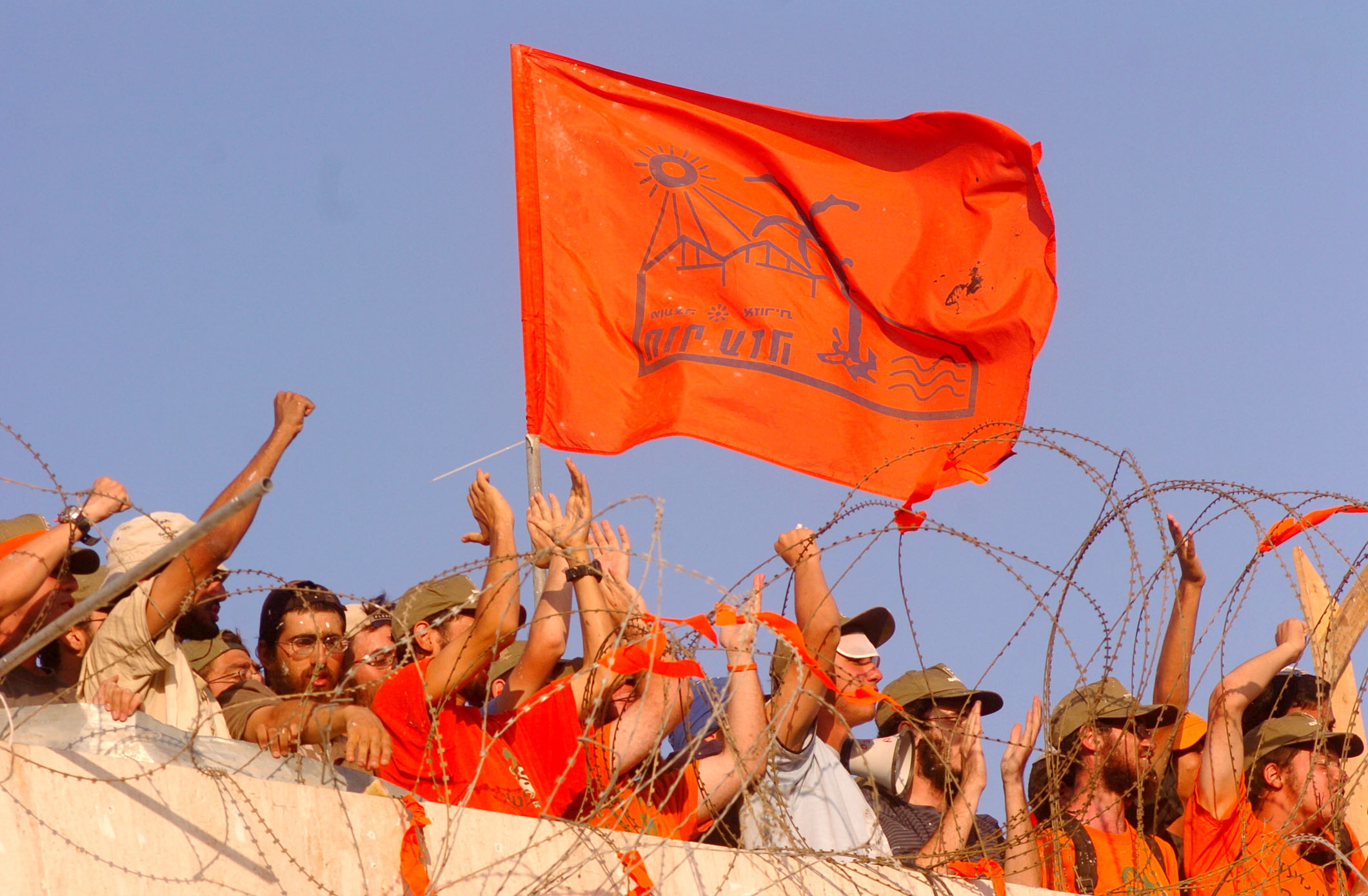 August 19, 2005. Residents protest during the evacuation of the Israeli community Shirat Hayam. The evacuation of Shirat Hayam was part of the Gaza Disengagement, which occurred during the summer of 2005.